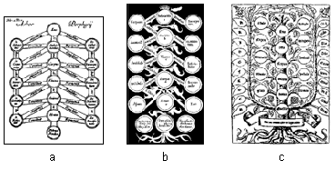 Compilation of three Porphyrian trees, for quicker display.